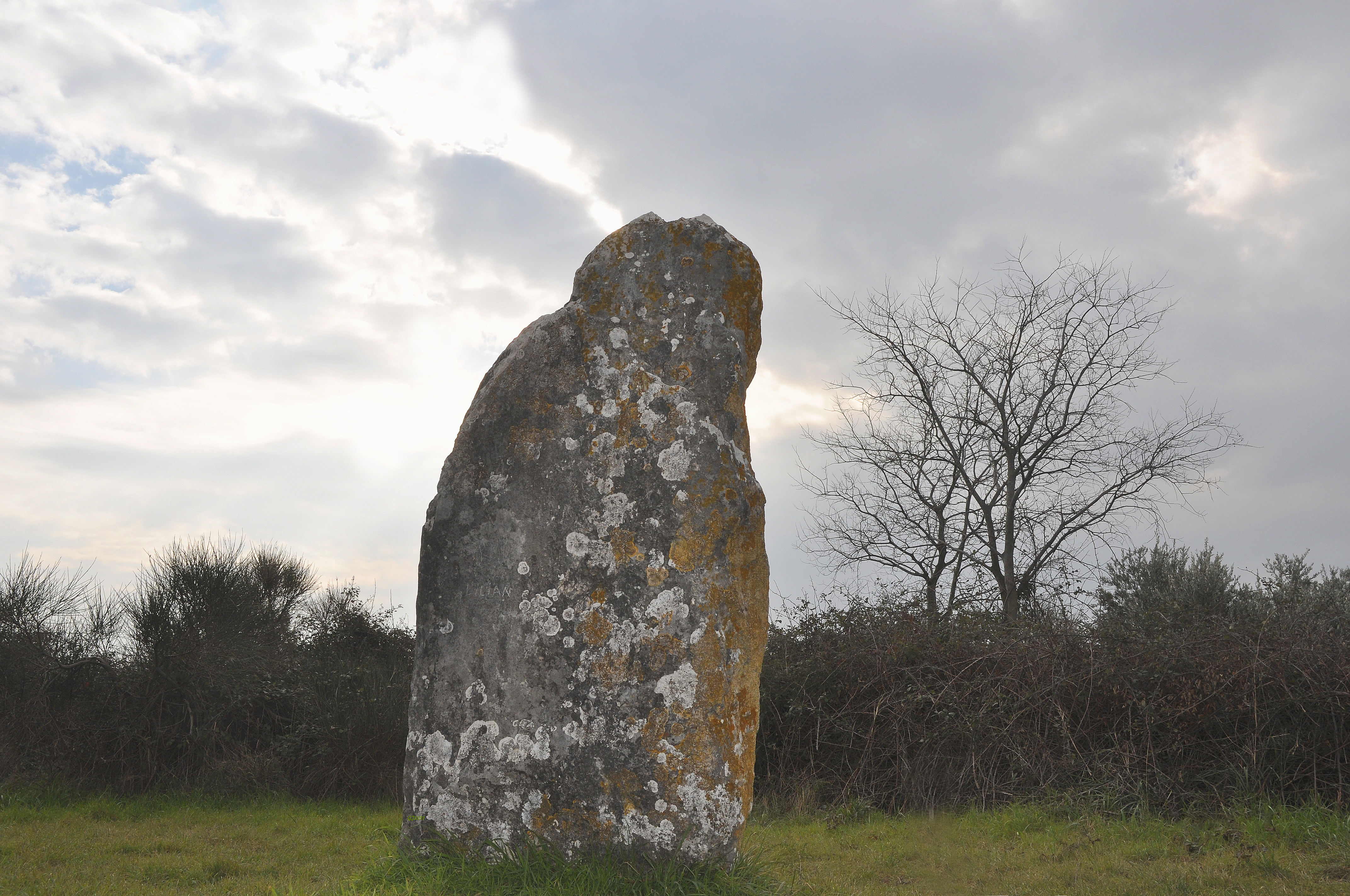 C' is a menhir being with NIMES.